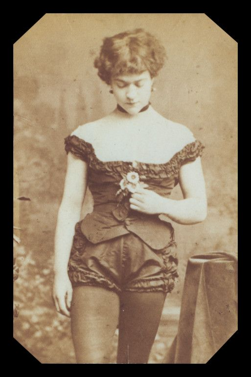 Rossa Matilda Richter, also known as Zazel, the first human cannonball performer (when she was 14, in 1887).